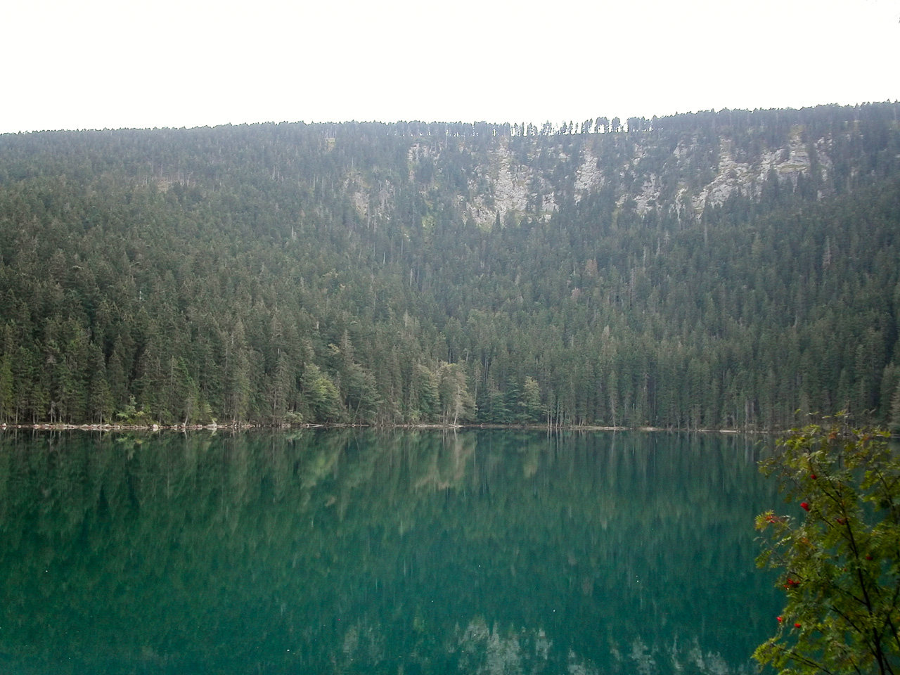 Černé jezero and the cwm over it in the Šumava Range of the Czech Republic